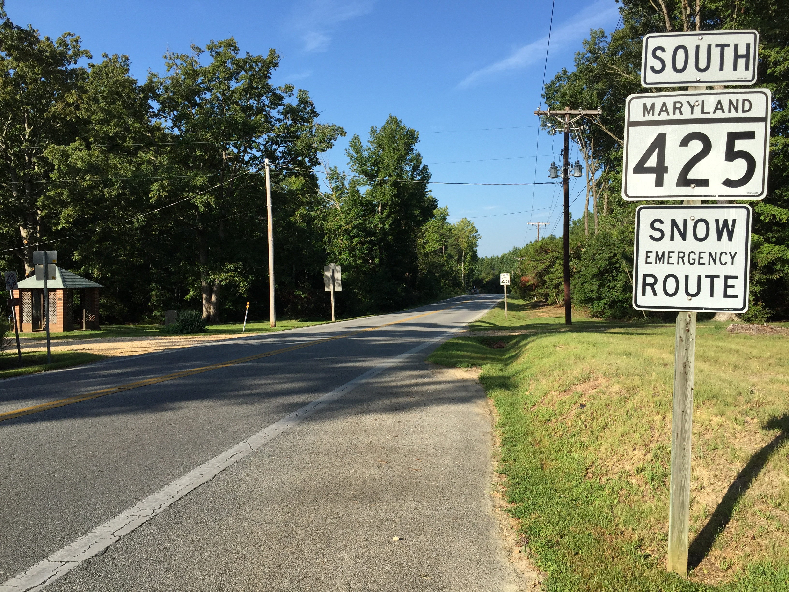 View south along Maryland State Route 425 (Ironsides Road) at Durham Church Road in southwestern Charles County, Maryland